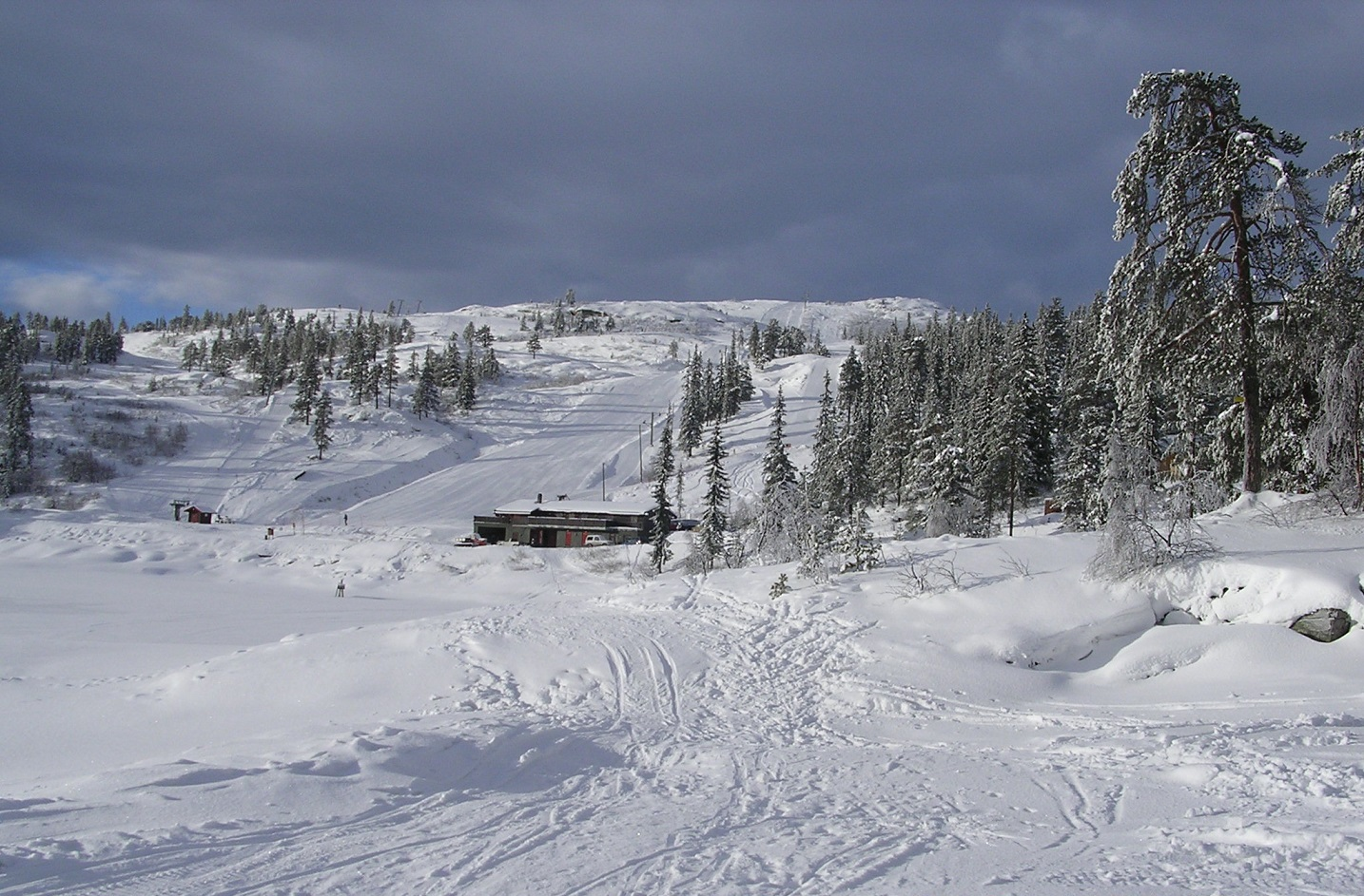 An Alpine Center in Buskerud County, Norway.